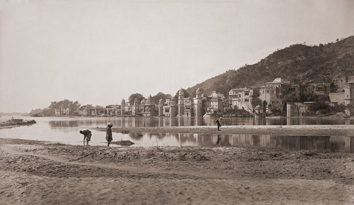 Haridwar from opposite bank of the Ganges, 1866. Original description: “Photograph of Haridwar from the 'Strachey Collection of Indian Views', taken by Samuel Bourne in 1866. Haridwar, situated in the foothills of the Himalayas is the first major town on the River Ganges at the point where the river flows onto the plains. Blessed by the trinity of Lord Shiva, Vishnu and Brahma, Haridwar has always been a major pilgrimage site for Hindus. The Ganges here is quite calm and clear and the many bathing ghats are always full of people performing their ablutions. The main bathing ghat at Haridwar is Hari-ki-Pari which reputedly contains a footprint of Lord Vishnu embedded in a stone.”